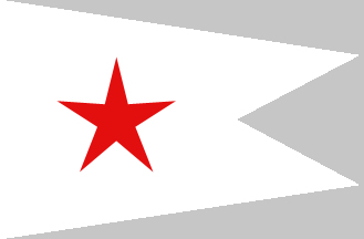 Housflag of the Red Star (packet) Line when it was established and run by the New York firm of Byrnes, Trimble & Co., 1821-1835/36 (not to be confused with same-named Belgian/US-American shipping company established in 1873, that used the same flag). The white background colour of the flag was changed into blue, when the Red Star Line was bought up by Robert Kermit. The Line went done in 1868.